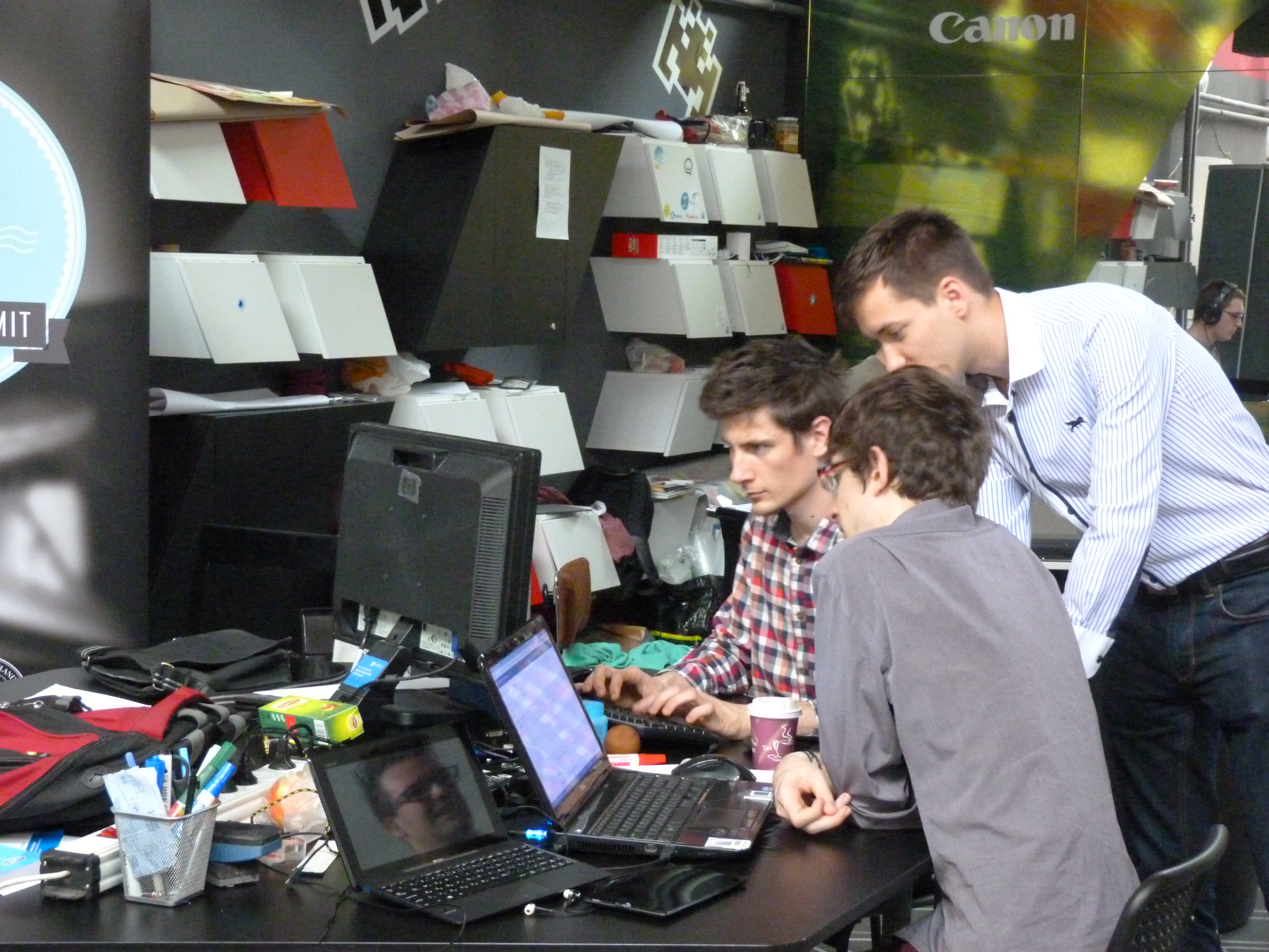 Mistory (developer group). Szabó Levente, Elekes Tamás, Musicz Péter. Live on the 22nd of May, 2015. Budapesti Műszaki Egyetem (BME) Demola Center, Egry József utca 18, Budapest XI. Mistory developer group.